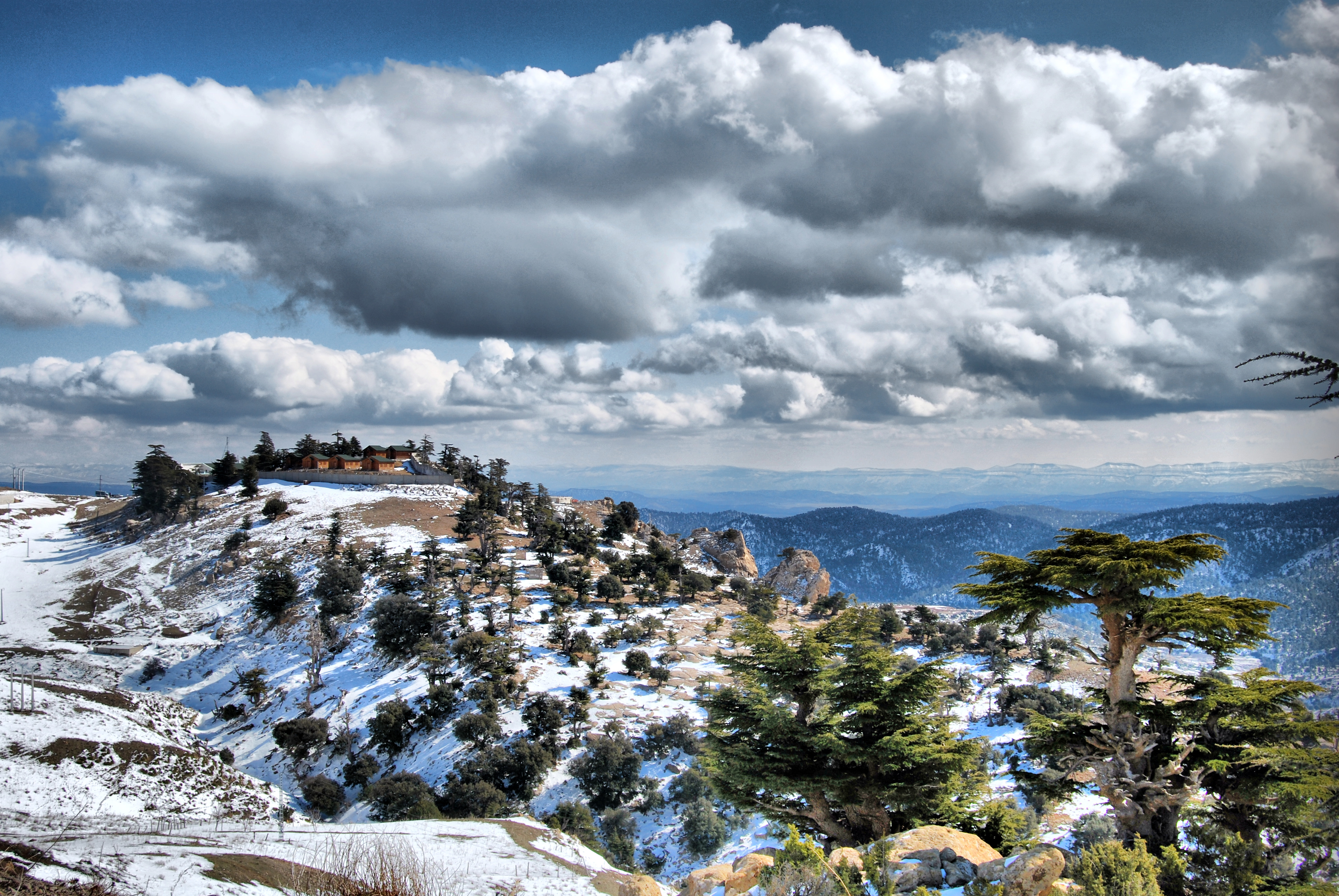 Landscape in Djebel Chelia (tourist villa and national park of Chélia) Algeria.